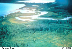 Brooks River Archeological District (Bristol Bay, Alaska) This image or media file contains material based on a work of a National Park Service employee, created as part of that person's official duties. As a work of the U.S. federal government, such work is in the public domain in the United States. See the NPS website and NPS copyright policy for more information.